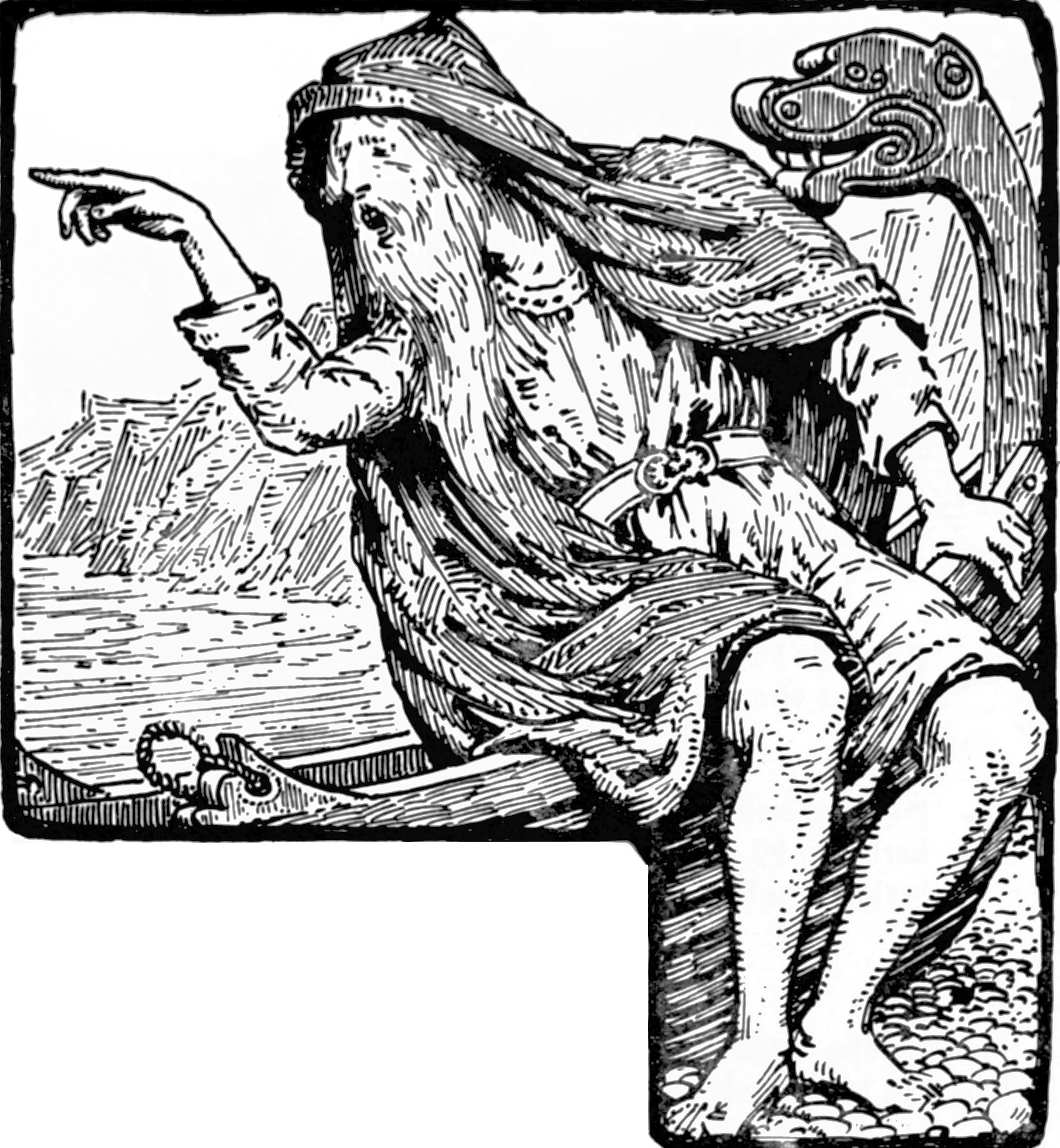 An illustration to Hárbarðsljóð. The list of illustrations in the front matter of the book gives this one the title Thor threatens Greybeard.